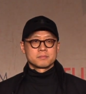 Kim Seong-hun in the press conference of Netflix's original series, Kingdom